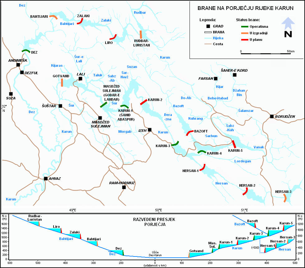 Dams at Karun-Dez watershed in Iran (with Croatian description)